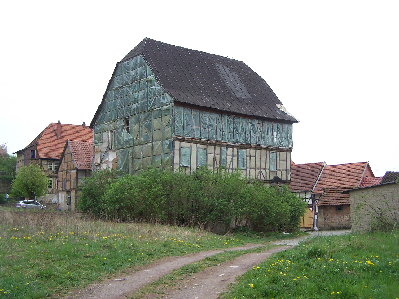 The main building of the court "Hessischer Hof" , under construction.